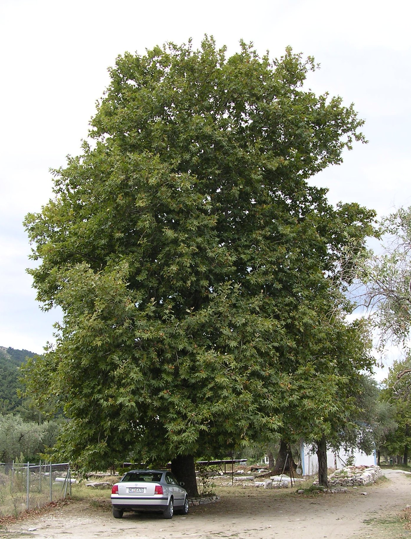 Platanus orientalis tree on Thasos in Greece